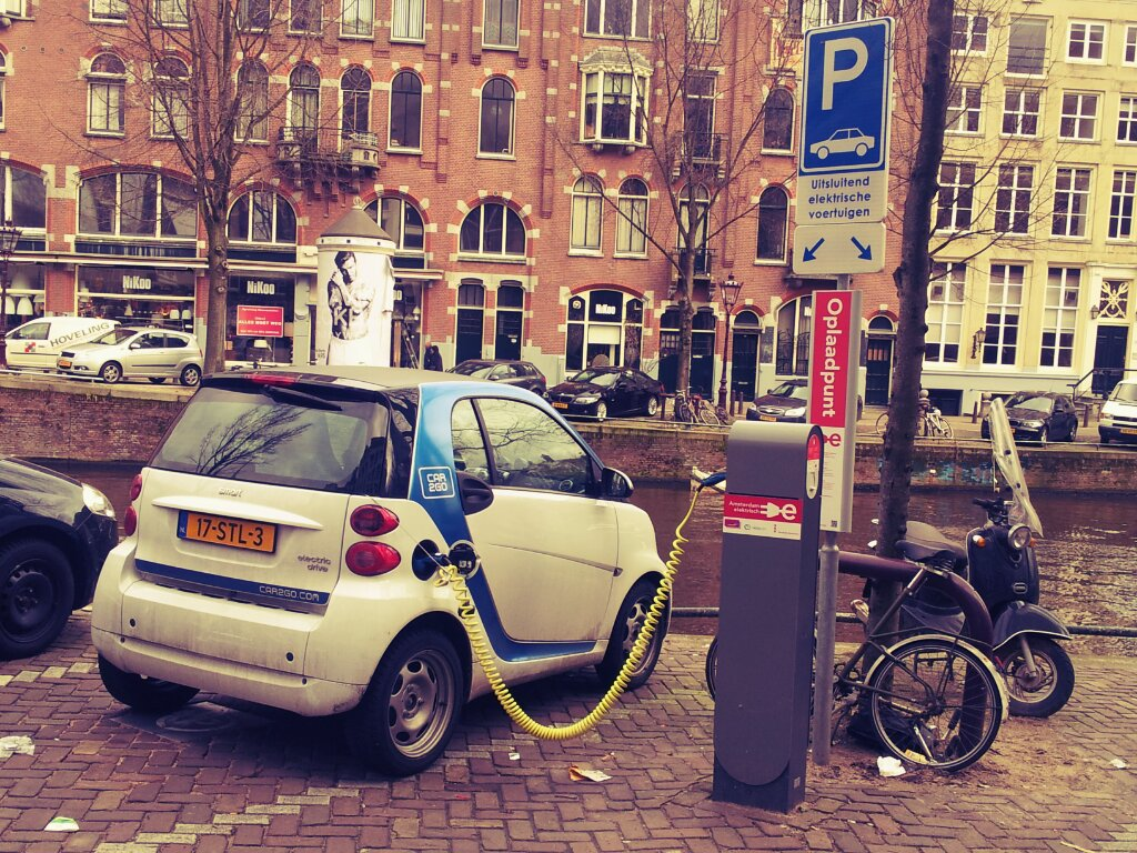 Smart fortwo electric drive charging in Amsterdam